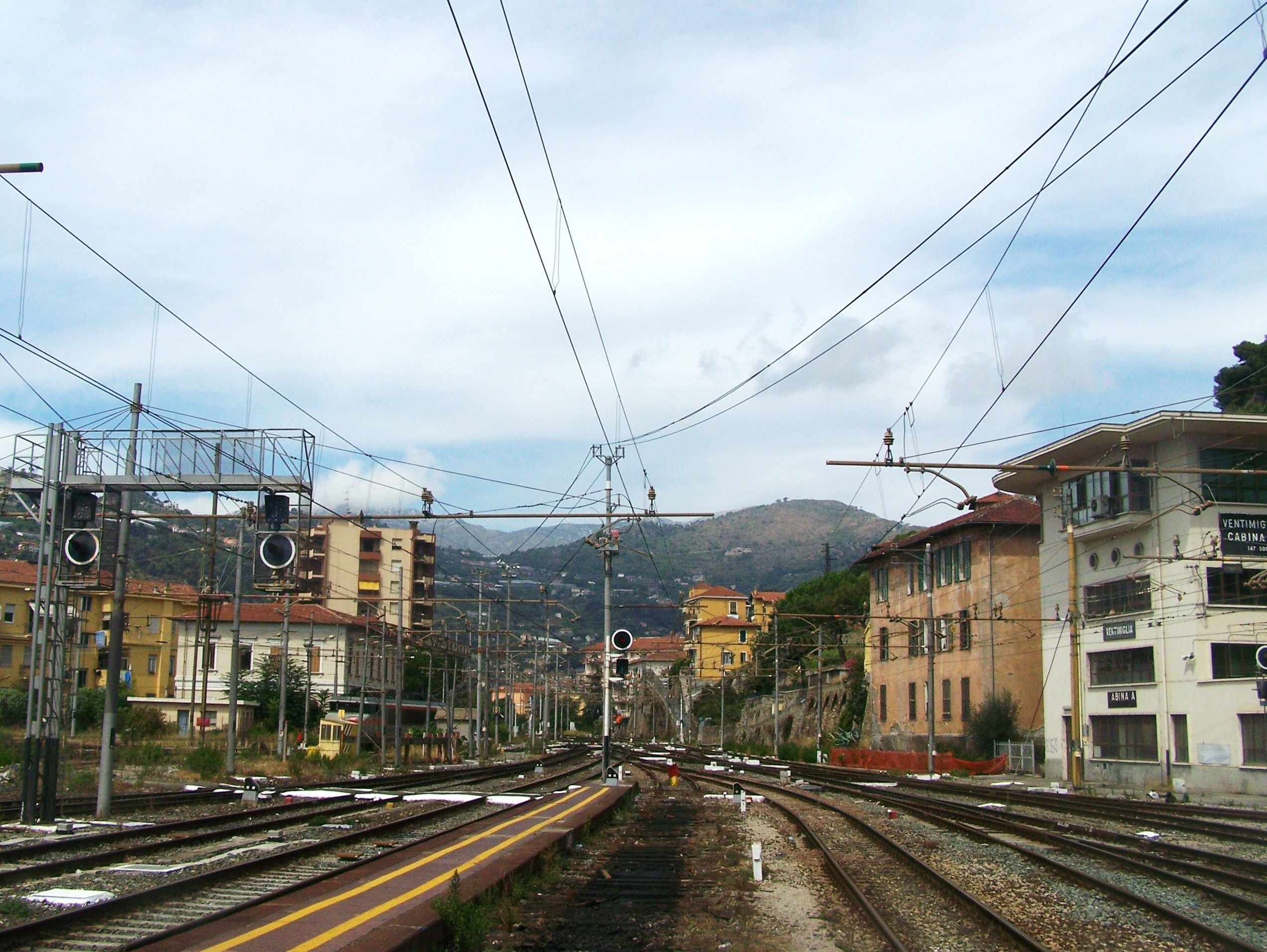 End of the French railway line from Marseille (Bouches-du-Rhône) to Ventimiglia (Italy) seen here from the platforms of Ventimiglia station.